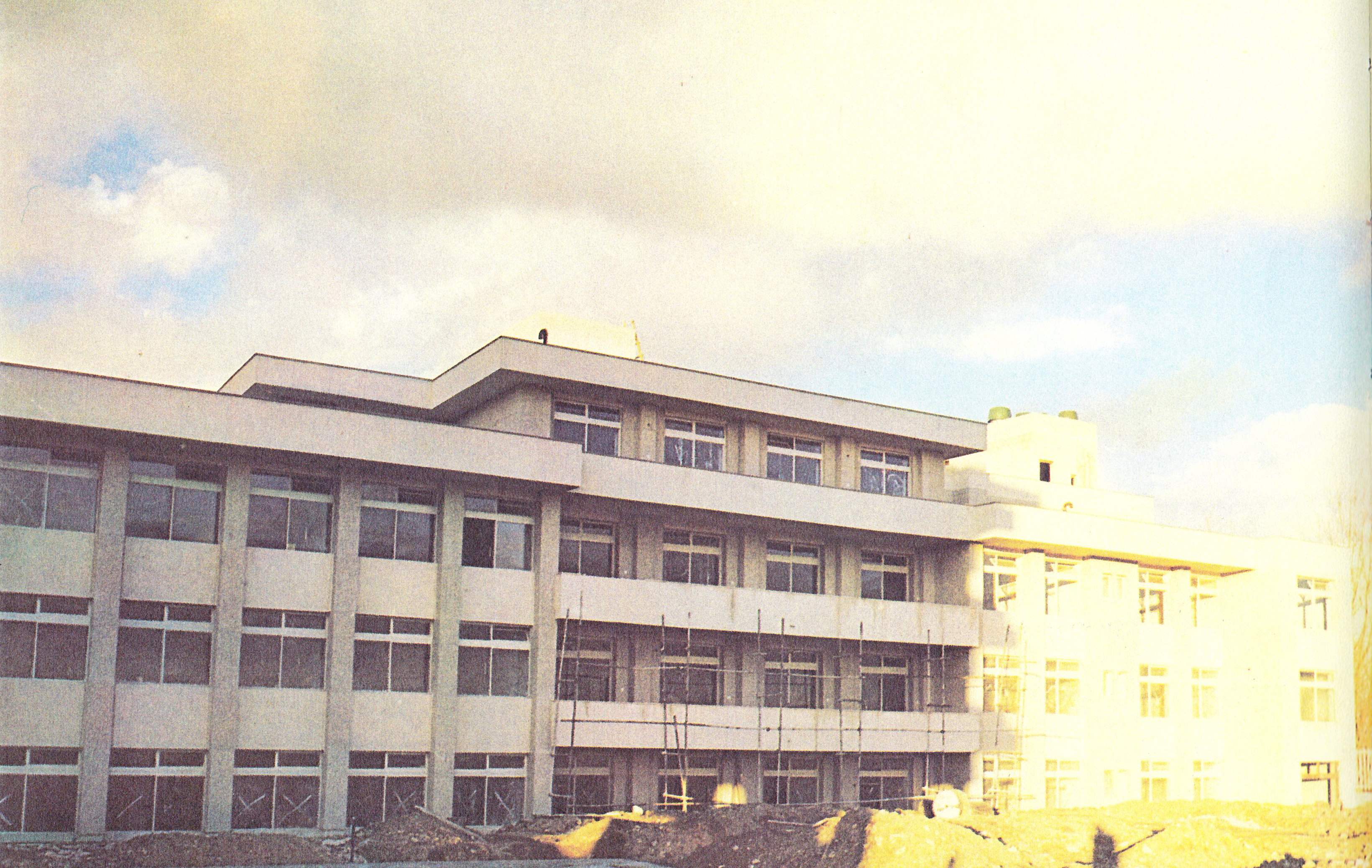 Burn hospital, Tehran Iran